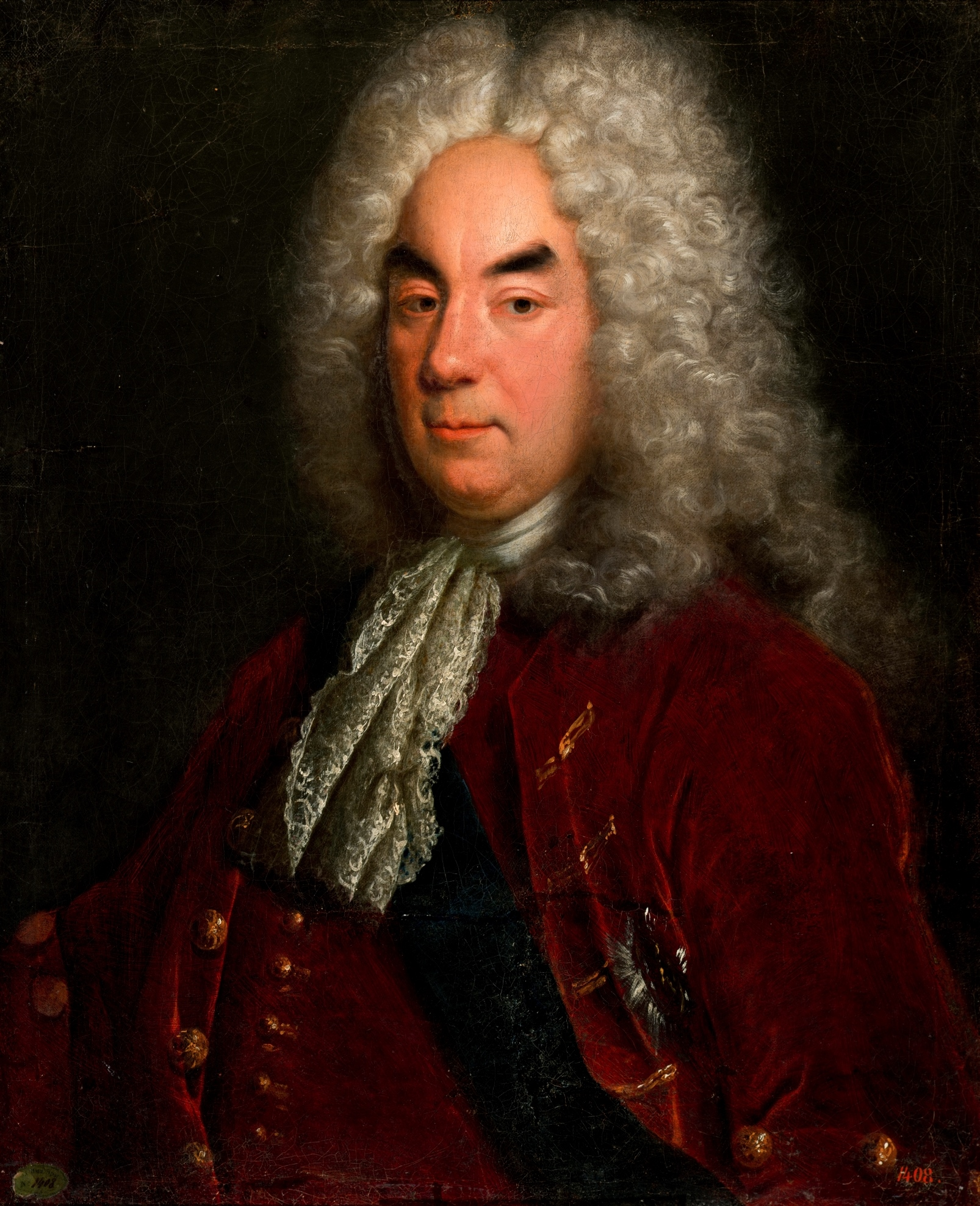 Count Peter Tolstoy (1645-1729), statesman, diplomat.